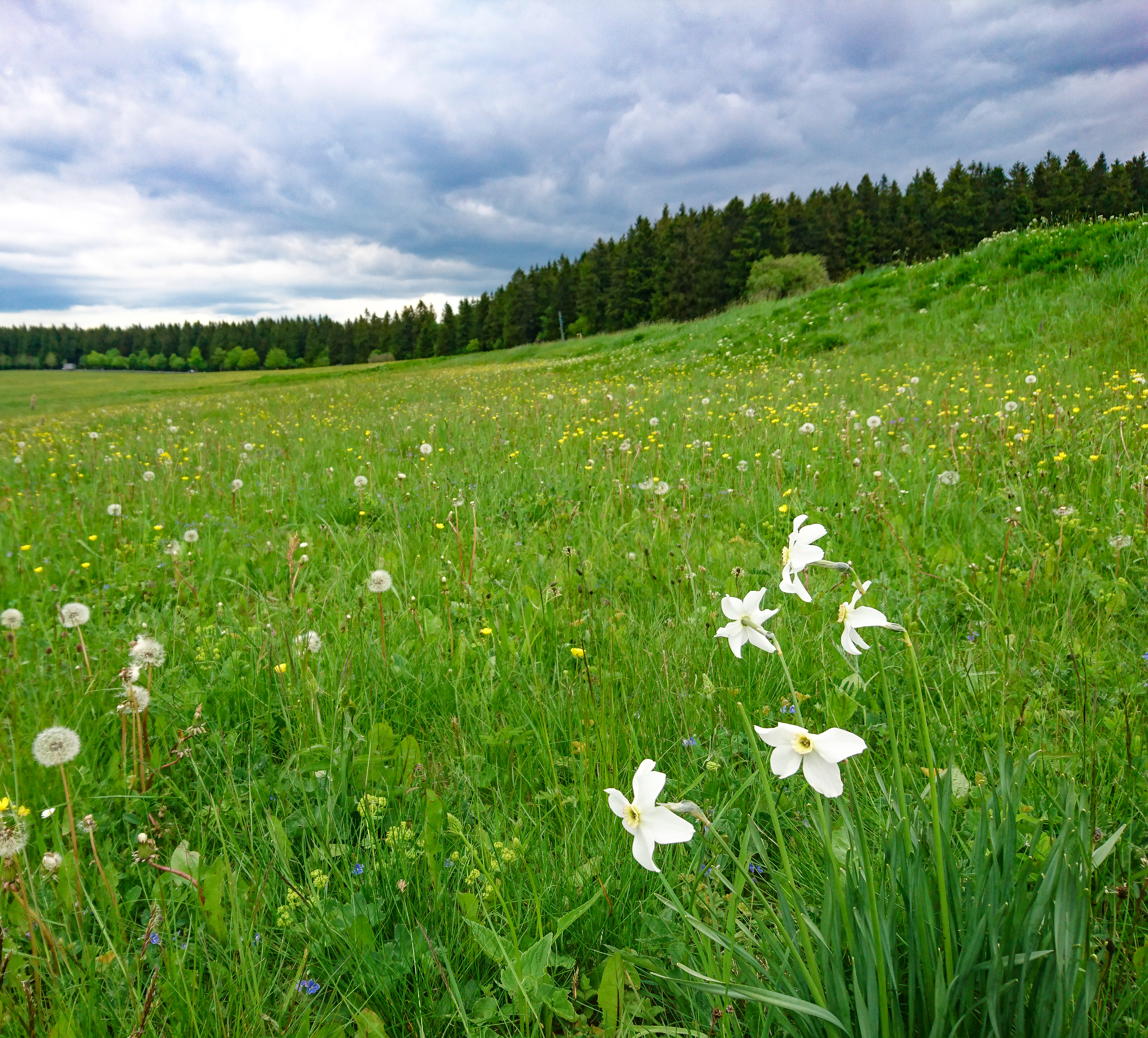 meadow in May with poet narcissus close to Rennsteig/Neustadt/Thuringia